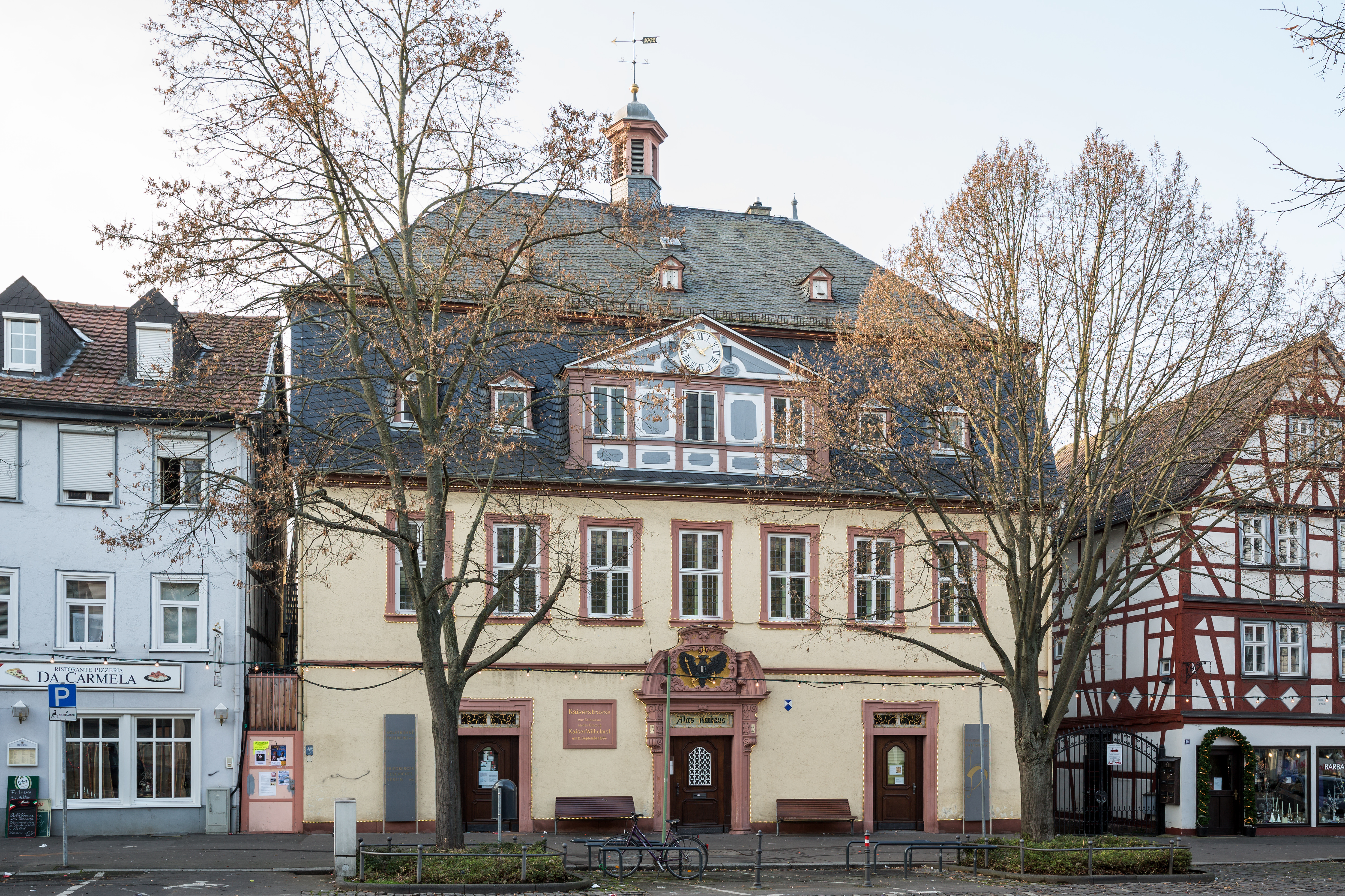 Friedberg (Hesse): Kaiserstraße (Emperor Street) 21 as seen from the southeast